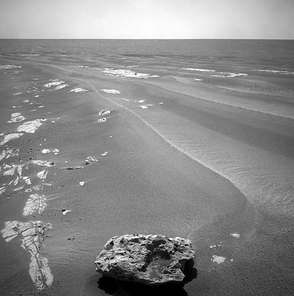 The Mars Exploration Rover Opportunity has eyed an oddly shaped, dark rock, which may be a meteorite and is about 2 feet across, on the surface of the Red Planet. The team spotted the rock called 'Block Island' in the opposite direction from which it was driving. The rover then backtracked some 820 feet to study it closer. Scientists will test the rock with the alpha particle X-ray spectrometer to get composition measurements and to confirm if indeed it is a meteorite.